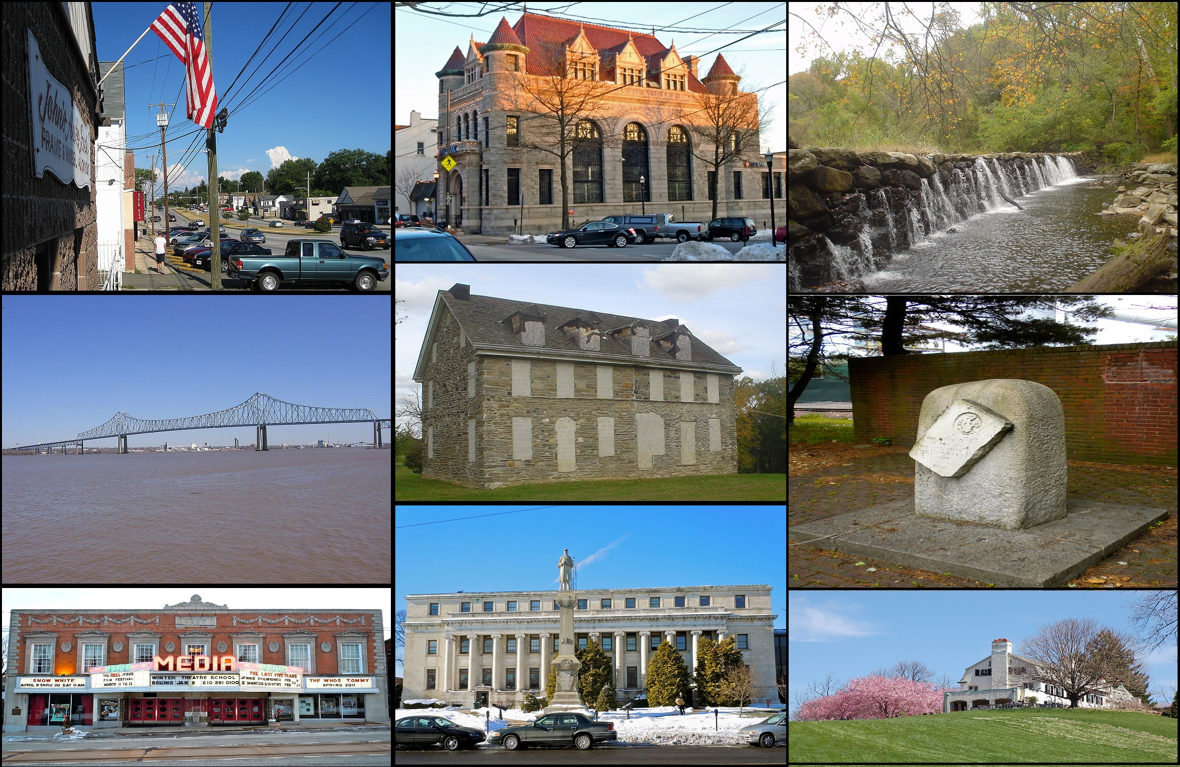 A collage of notable places in Delaware County, PA.